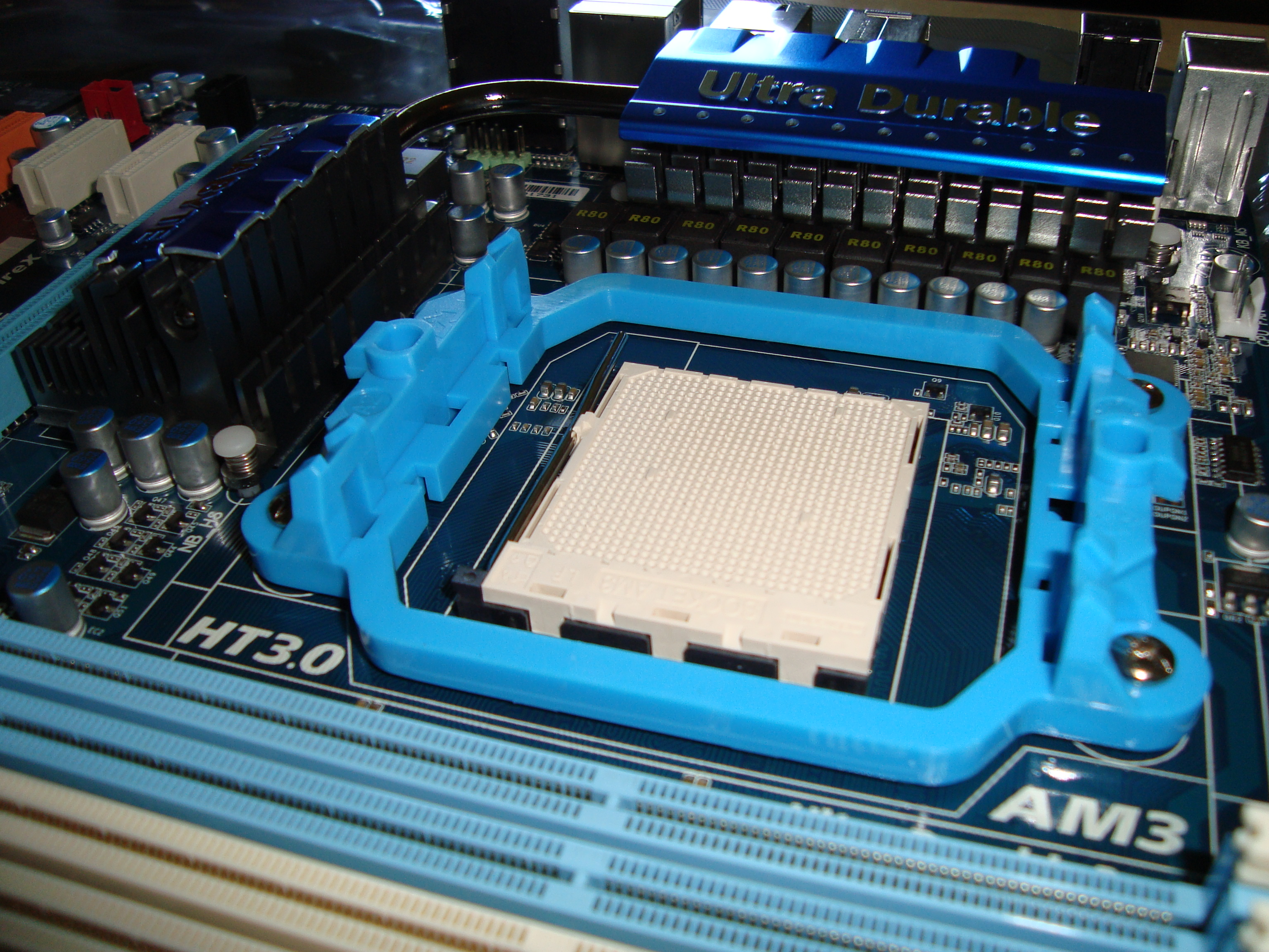 An AM3 Socket for AMD central processing units (CPU)